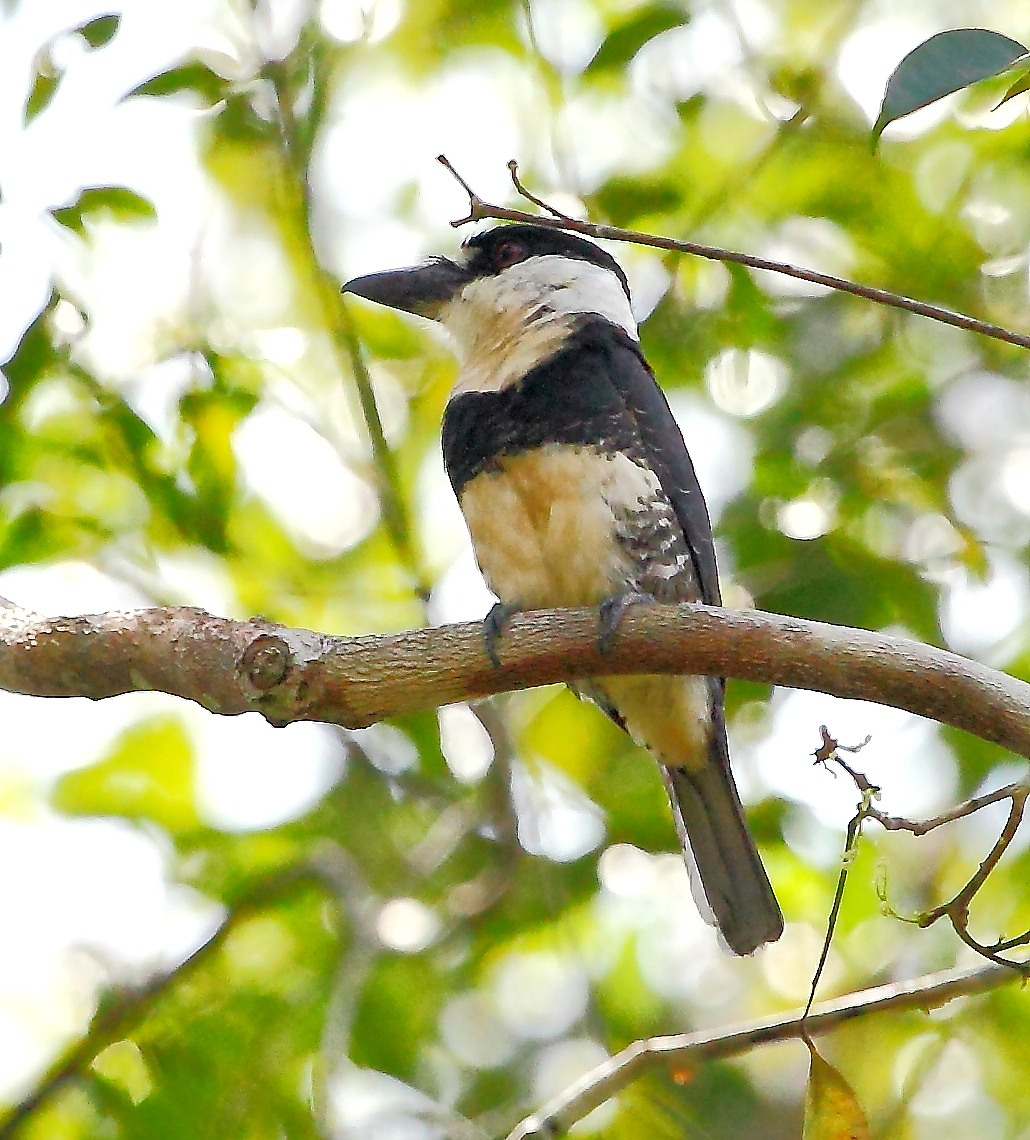 Guianan Puffbird at Manaus - AM - Brazil